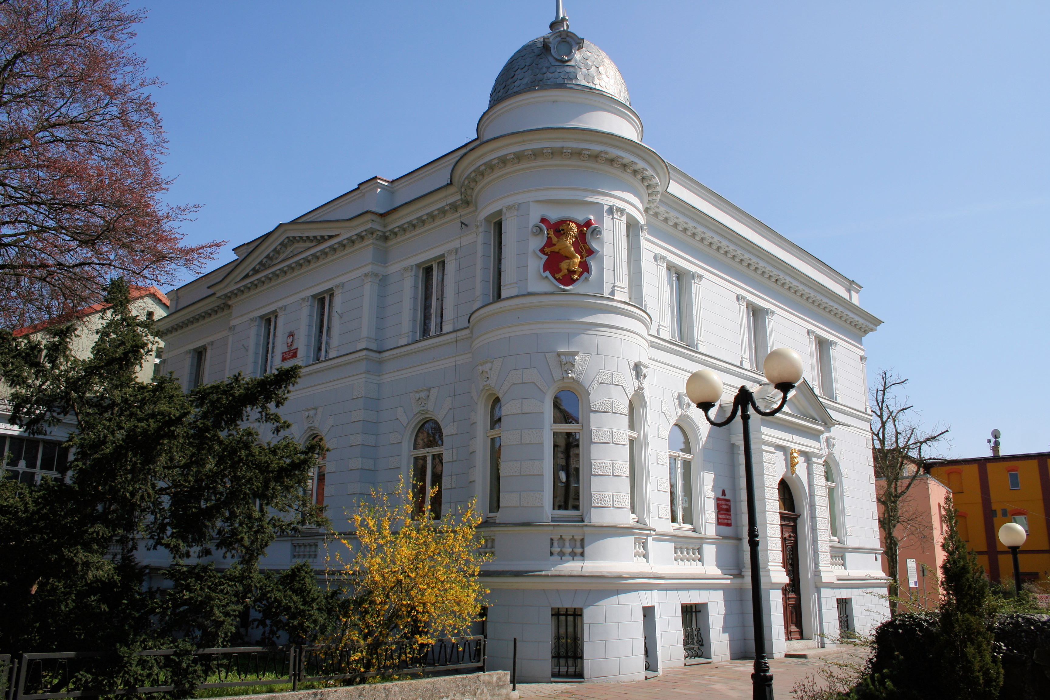 Old villa of manufacturer Max Laue, nowdays Public Library in Dębno